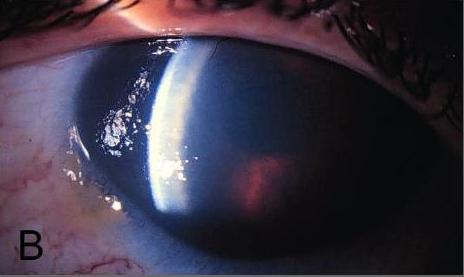 Slit lamp examination showing milkiness and increased thickness of the cornea in the patient with Herboyan syndrome.